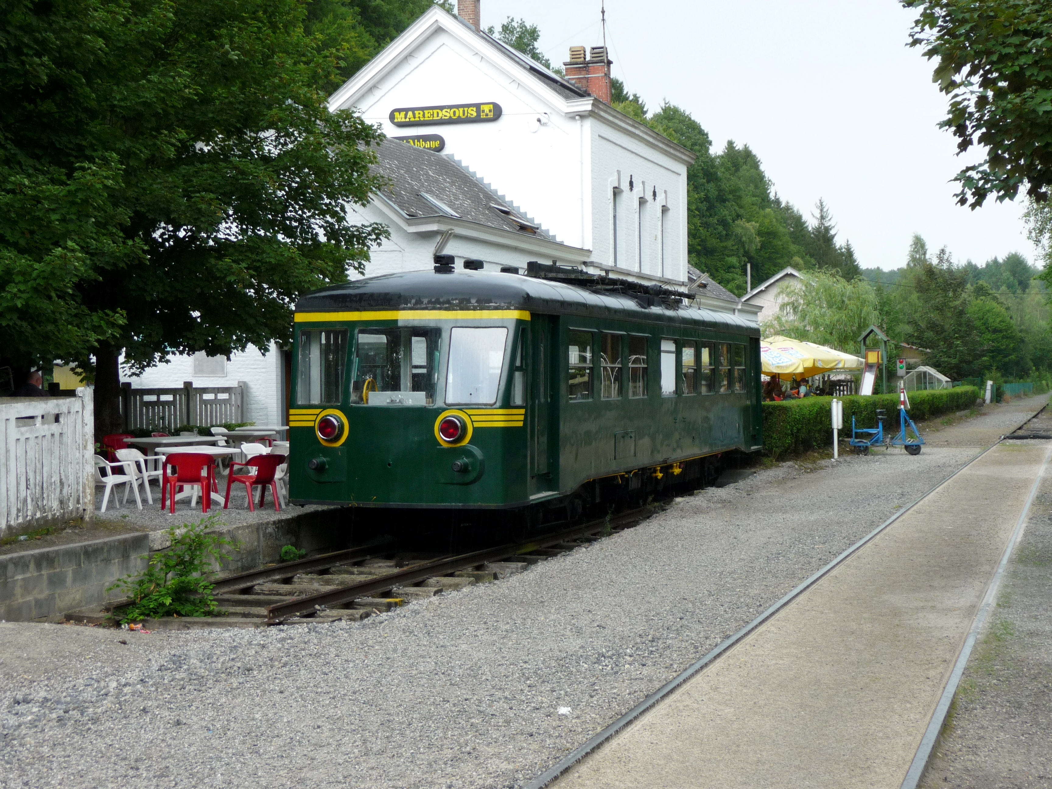 Station Denée-Maredsous on belgian railway line 150. The line is now dismantled. This station is used as a touristic tavern at the end of a "railbike" section. The railcar on the frontside is the former AR 4614 from SNCB.